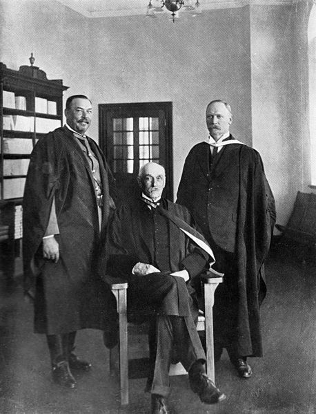 John X. Merriman between Gen. Louis Botha (standing left) and General. Jan Smuts (standing right), National Convention of South Africa (1909).